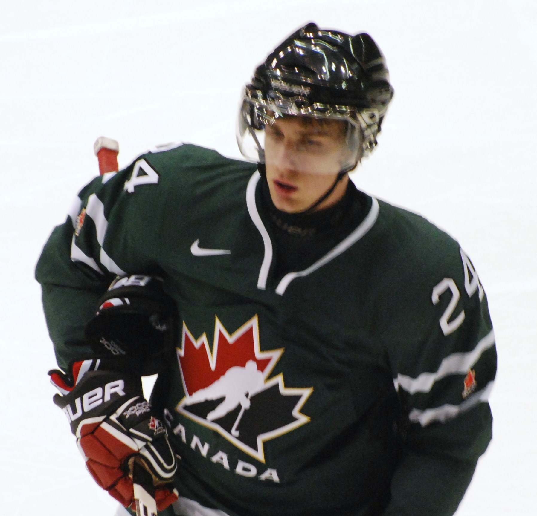 Calvin de Haan during at exhibition game prior to the 2010 World Junior Hockey Championships.